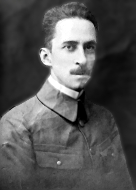 Emil Bobrowski